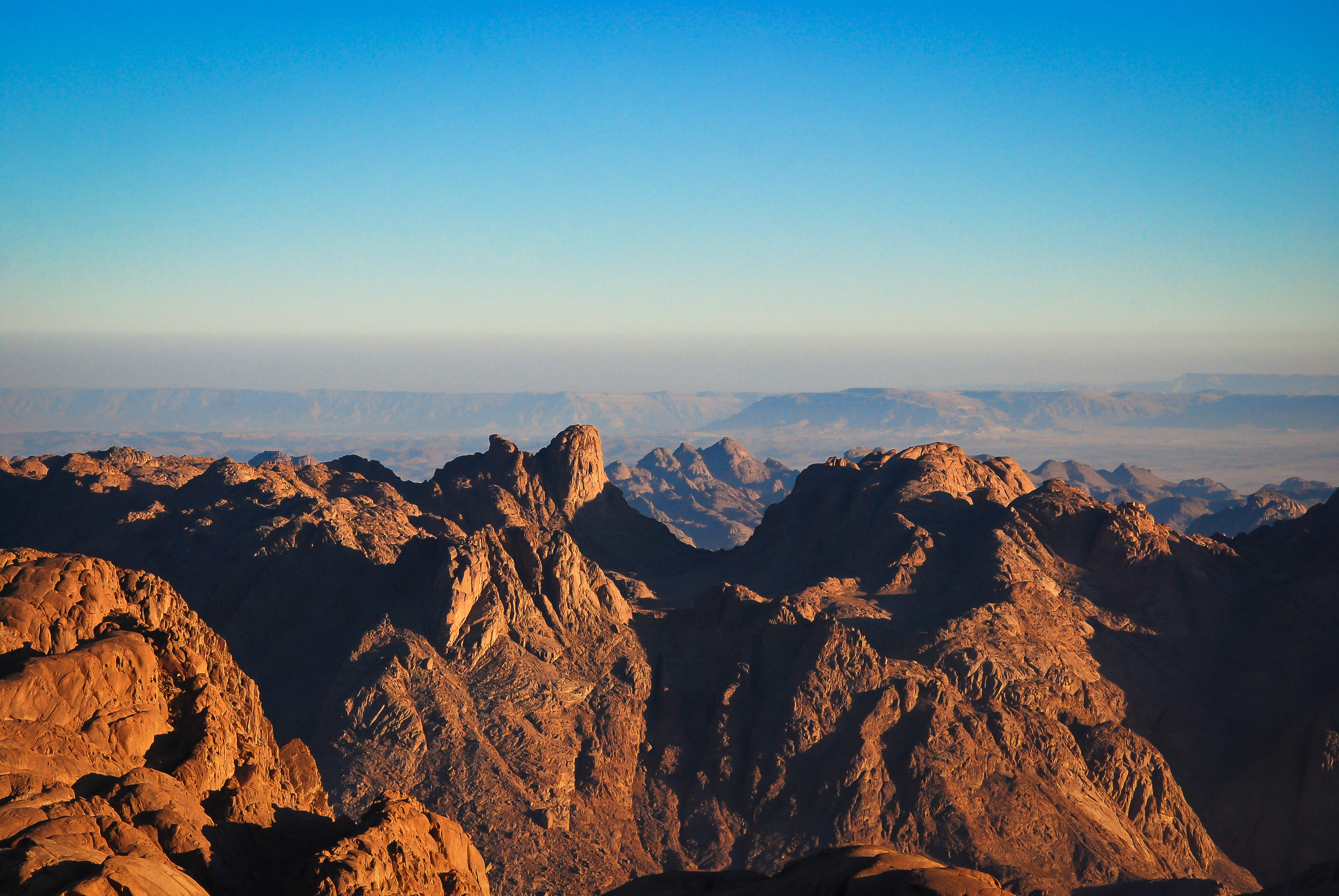 Mount Sinai (Arabic: طور سيناء Ṭūr Sīnāʼ or جبل موسى Jabal Mūsá ; Egyptian Arabic: Jabal Mūsá, lit. "Moses' Mountain" or "Mount Moses"; Hebrew: הר סיני Har Sinai), also known as Mount Horeb, is a mountain in the Sinai Peninsula of Egypt that is a possible location of the biblical Mount Sinai. The latter is mentioned many times in the Book of Exodus in the Torah, the Bible,[1] and the Quran.[2] According to Jewish, Christian and Islamic tradition, the biblical Mount Sinai was the place where Moses received the Ten Commandments.